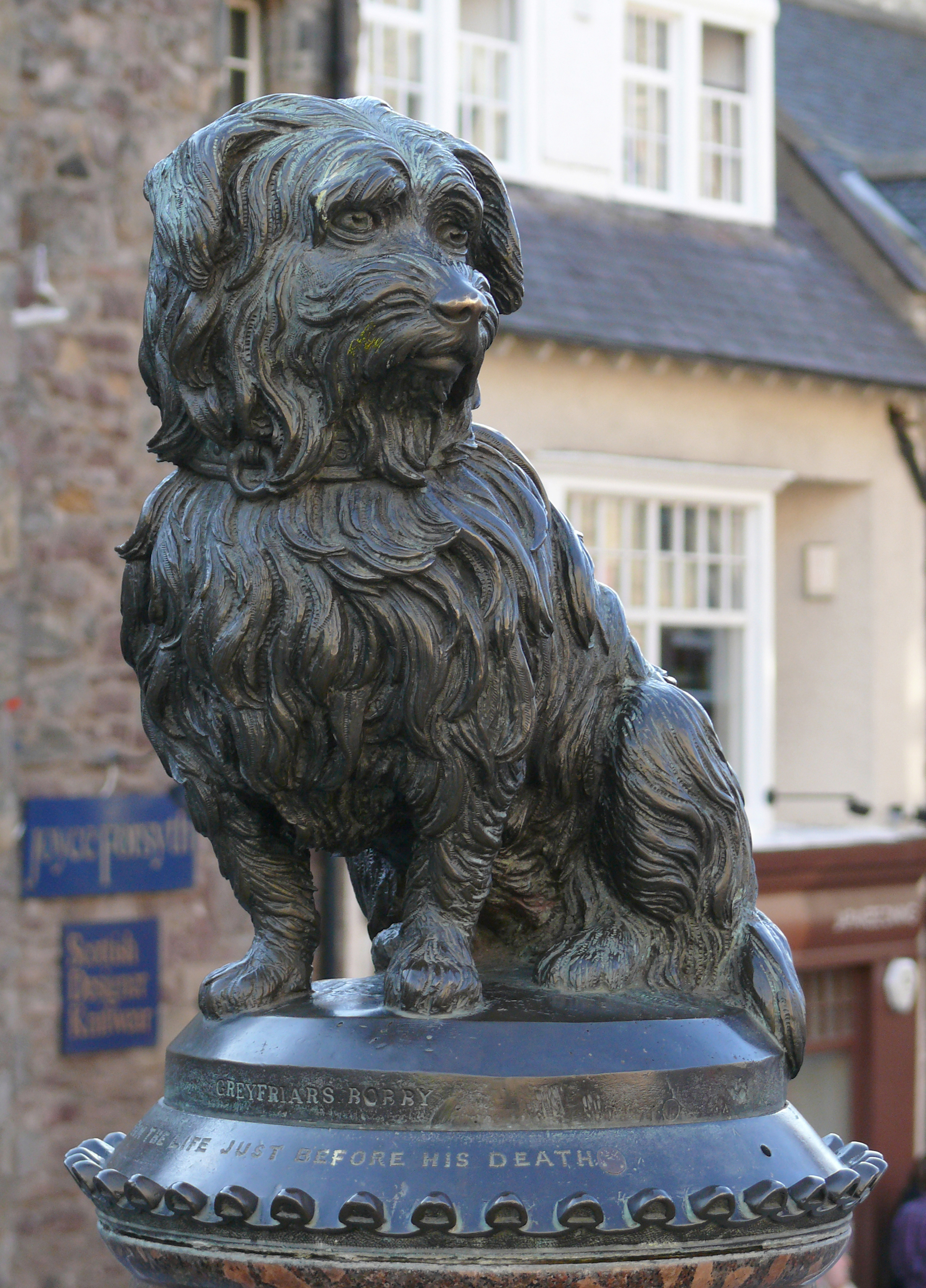 In 1873 Lady Burdett-Coutts commissioned a statue and fountain which was erected at the southern end of the George IV Bridge to commemorate Greyfriars Bobby. Bobby was a Skye Terrier who reportedly spent 14 years guarding the grave of his owner, John Gray, until he died himself on 14 January 1872.